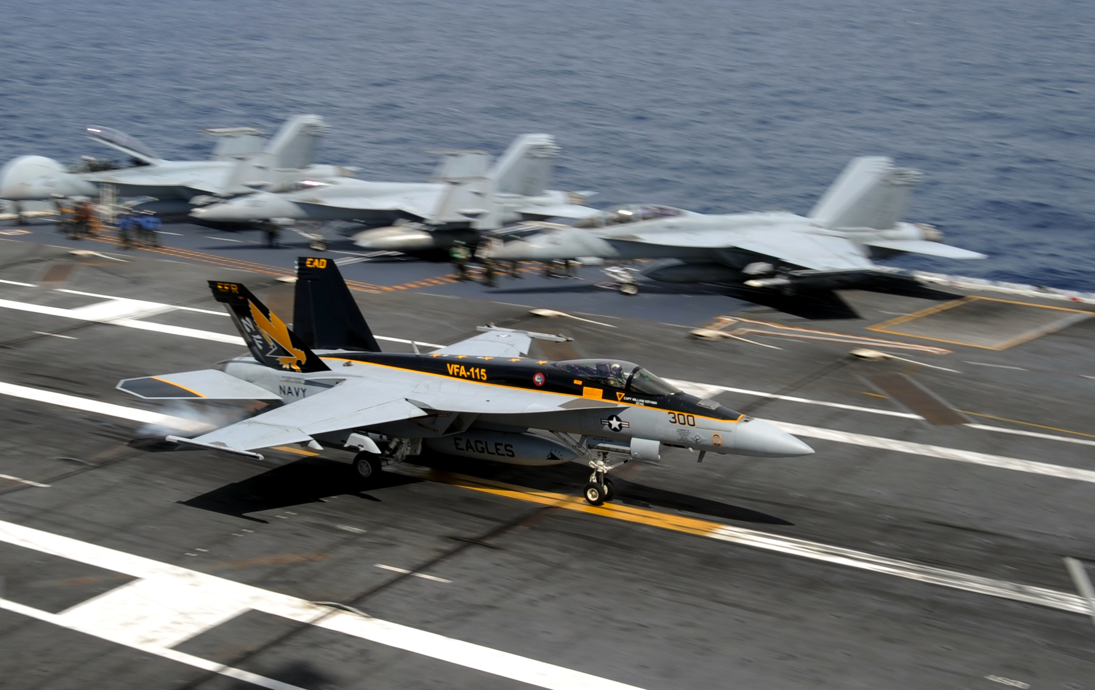 A U.S. Navy Boeing F/A-18E Super Hornet of Strike Fighter Squadron (VFA) 115 "Eagles" makes an arrested landing on the flight deck of the aircraft carrier USS George Washington (CVN-73) during the Carrier Air Wing (CVW) 5 fly-on.